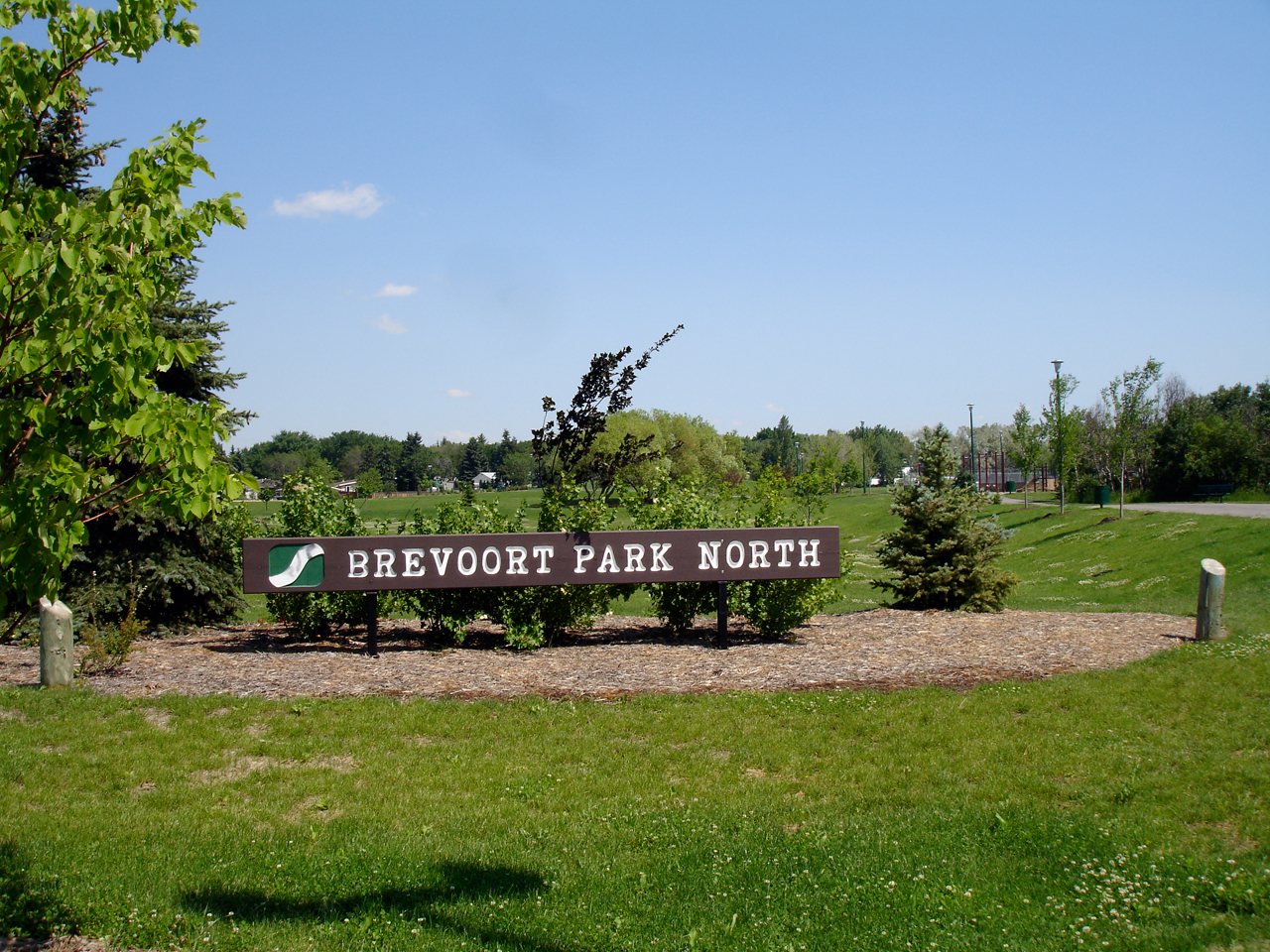 Brevoort Park North, a public park in Saskatoon, Saskatchewan, Canada.